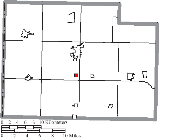 Map of the municipal and township boundaries of Paulding County, Ohio, United States, as of the 2000 census, with the location of the village of Latty highlighted. Township borders are shown only in unincorporated areas in order to differentiate incorporated and unincorporated areas more clearly.